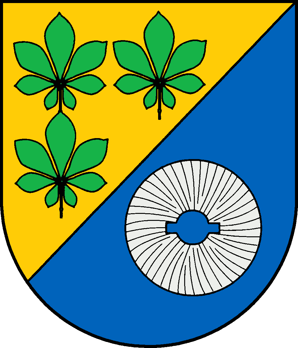 Coat of arms of the municipality Kühren in Schleswig-Holstein, Germany.